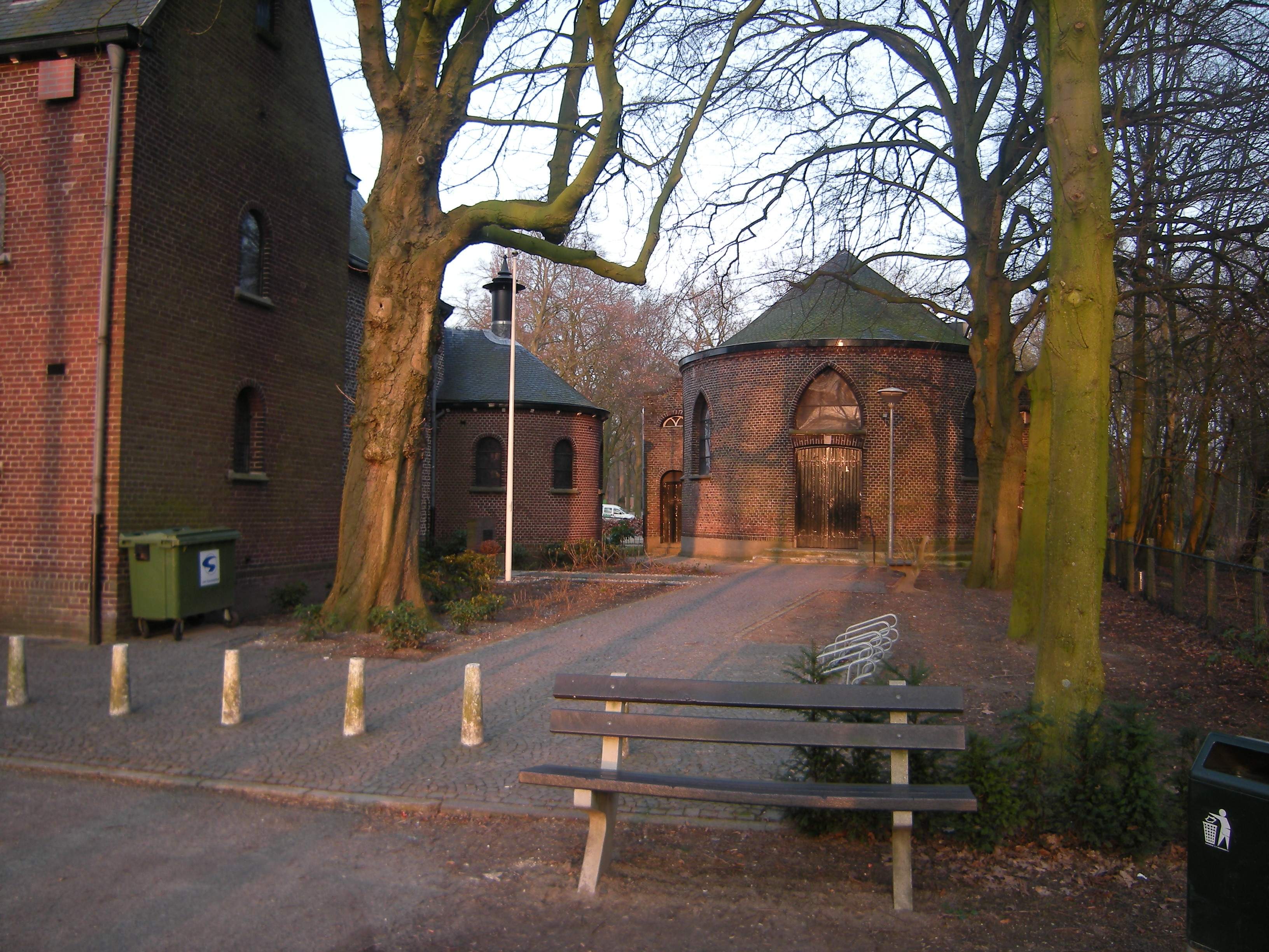 Genooi chappel Venlo, outbuilding